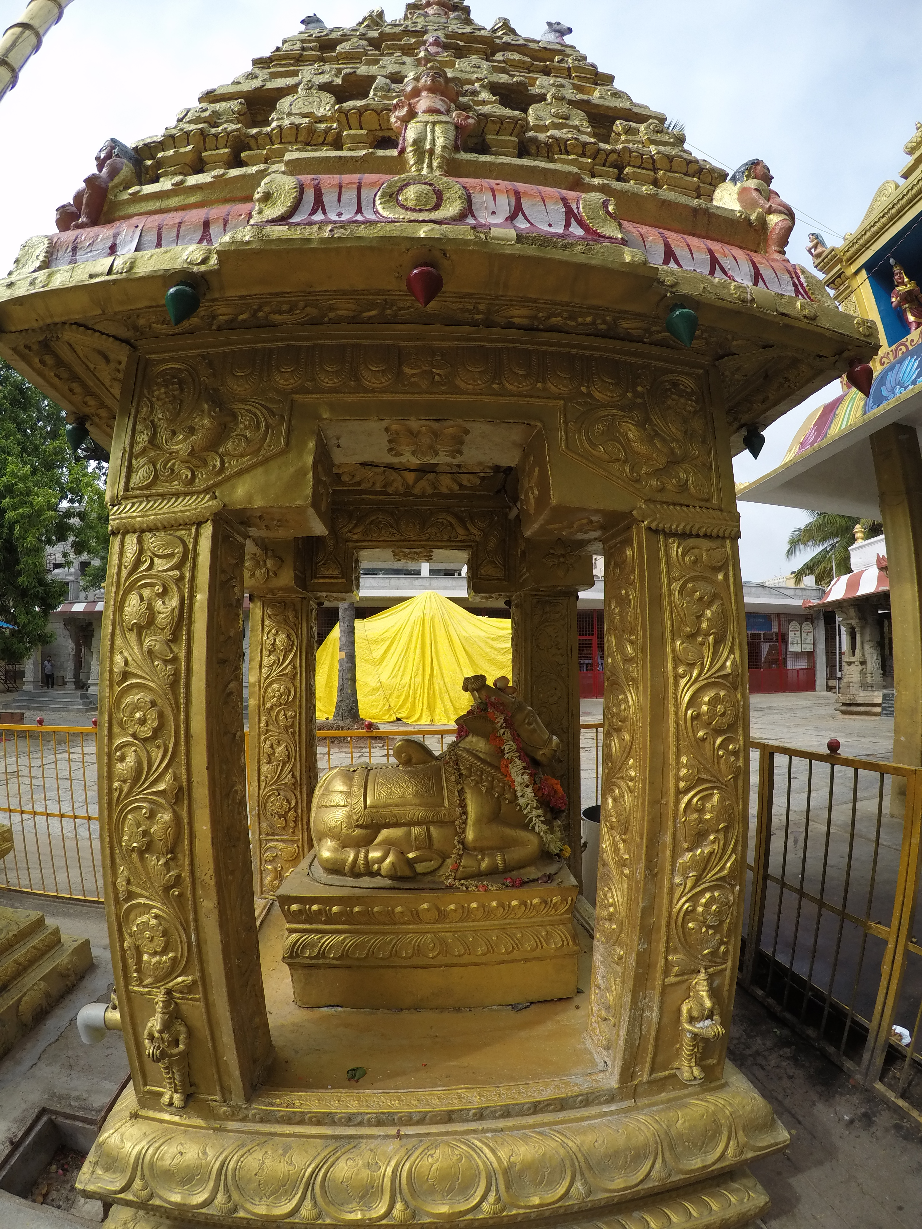 Sri Someshwara Swamy Temple, Bangalore